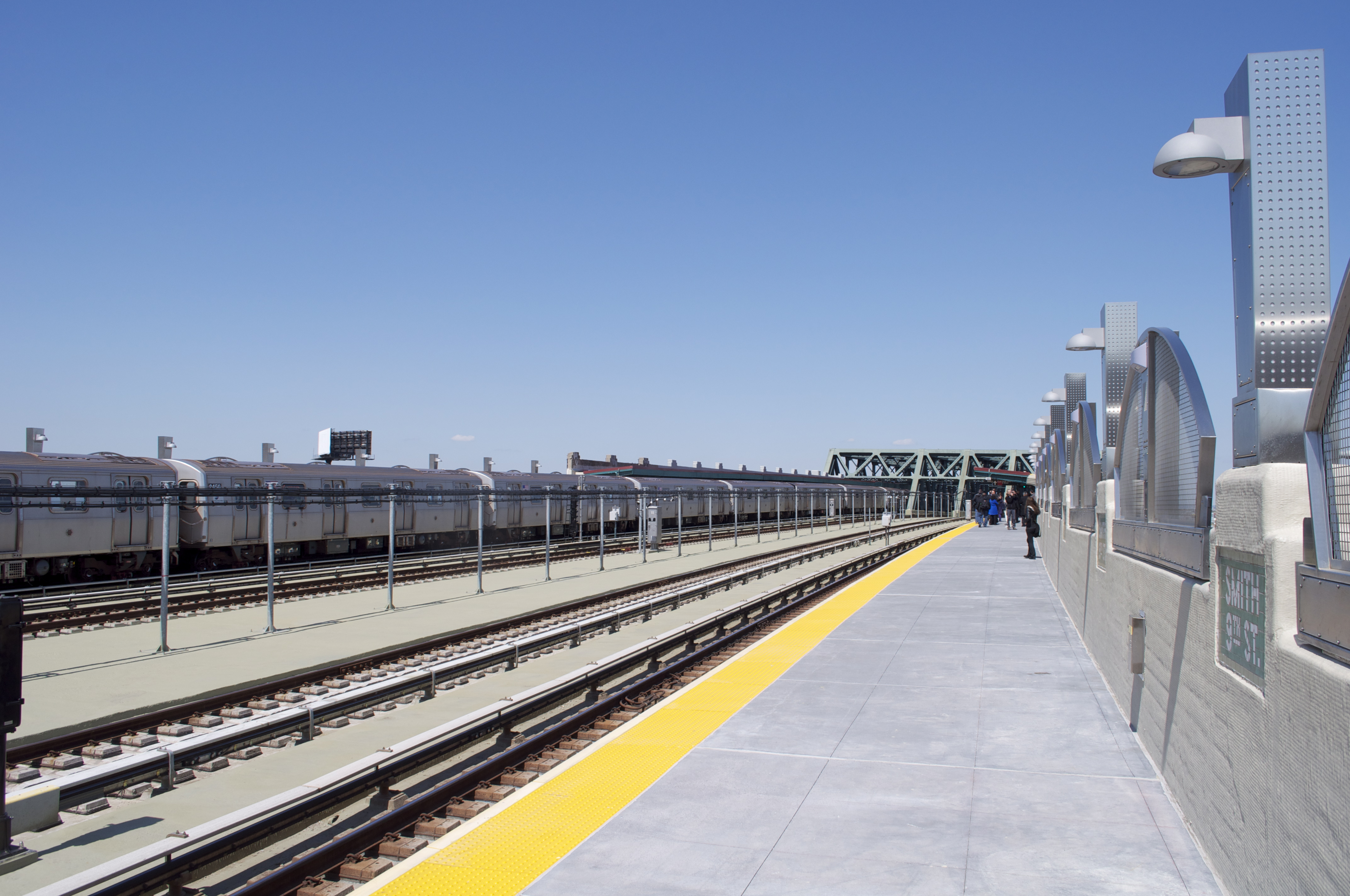 Manhattan/Queens-bound platform at Smith-Ninth Streets station in Brooklyn, New York City.